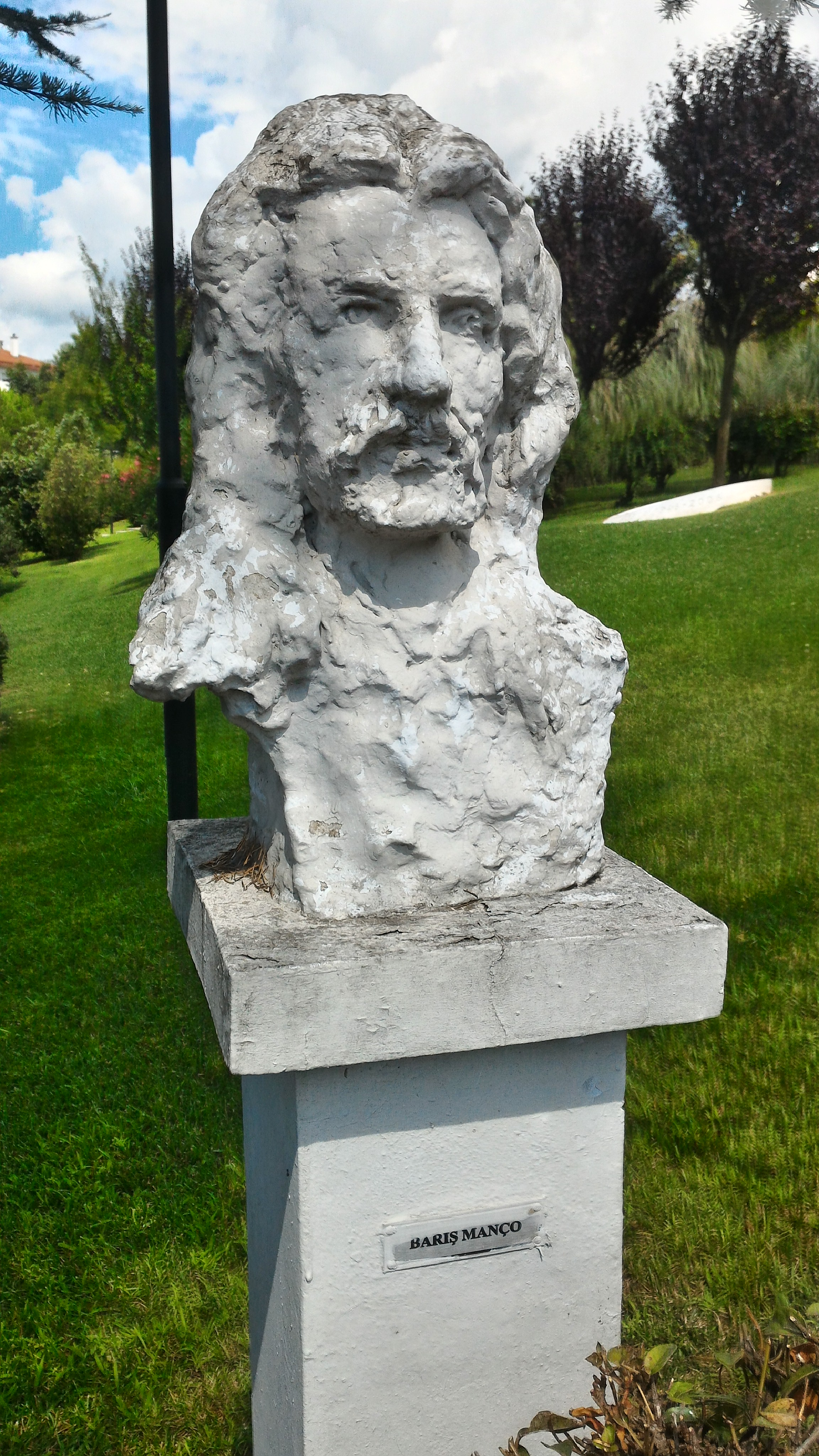 Bust of Barış Manço by Gürdal Duyar at the Akat Artists' park in Etiler Besiktas